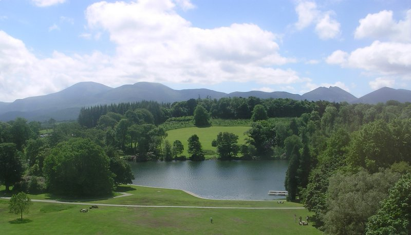 Castlewellan Lake, Castlewellan Forest Park, with the Mourne Mountains in the background. Copyright Paul Dundas, 2005